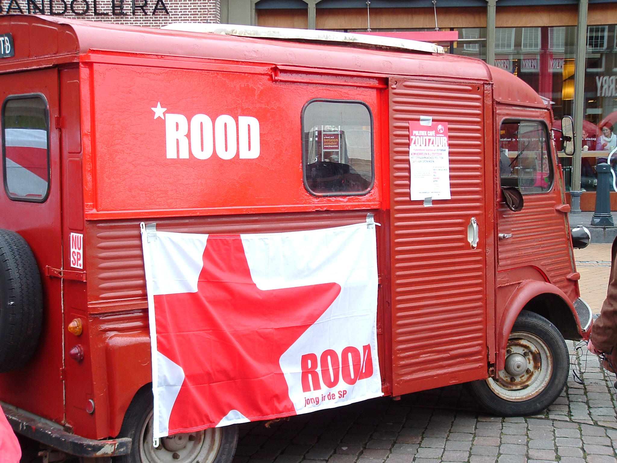 Campaigning van of ROOD